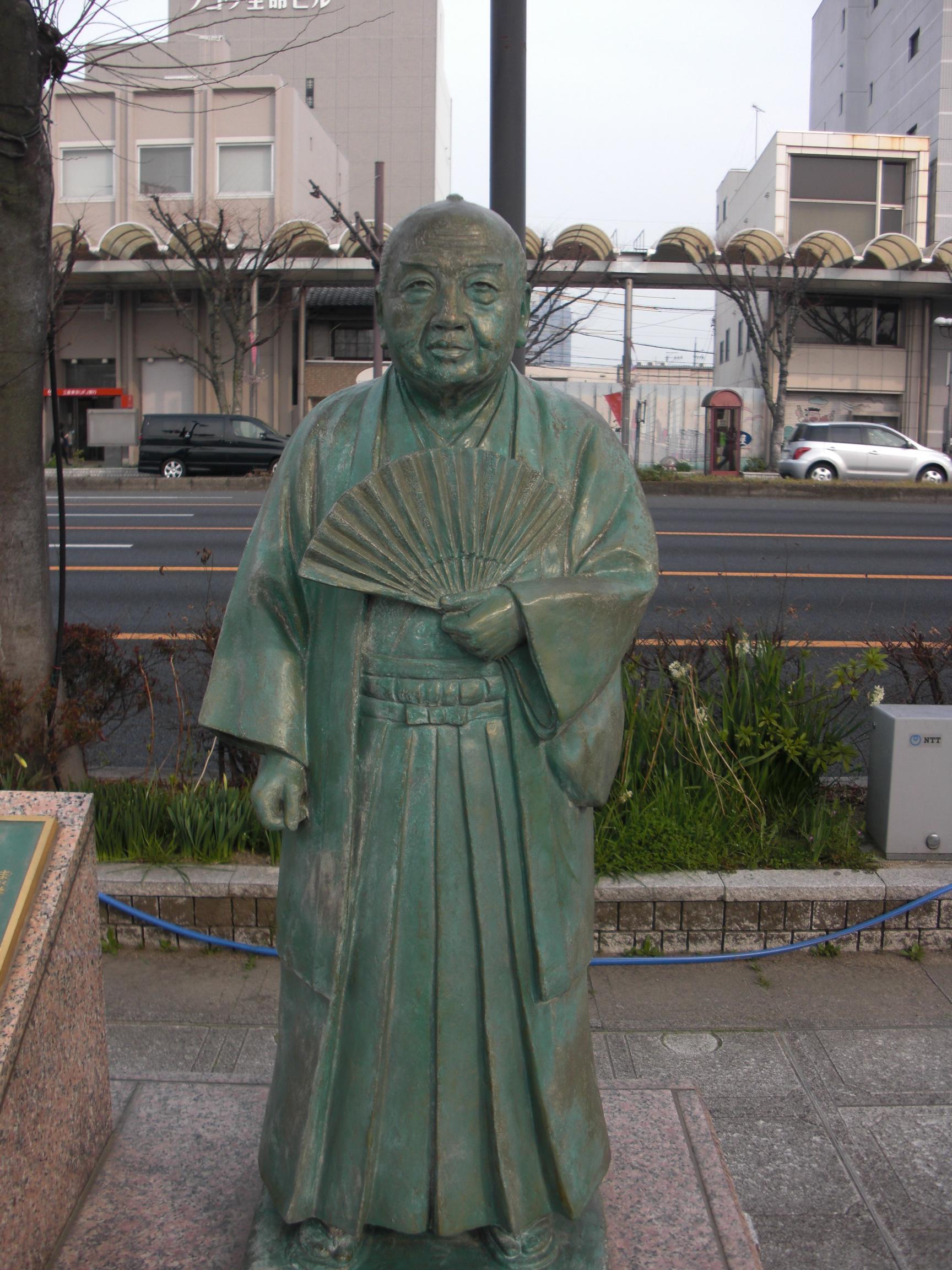 This is the statue of Kotosuga TANIKAWA, who is a scholar.This statue is in Tsu, Mie, Japan.